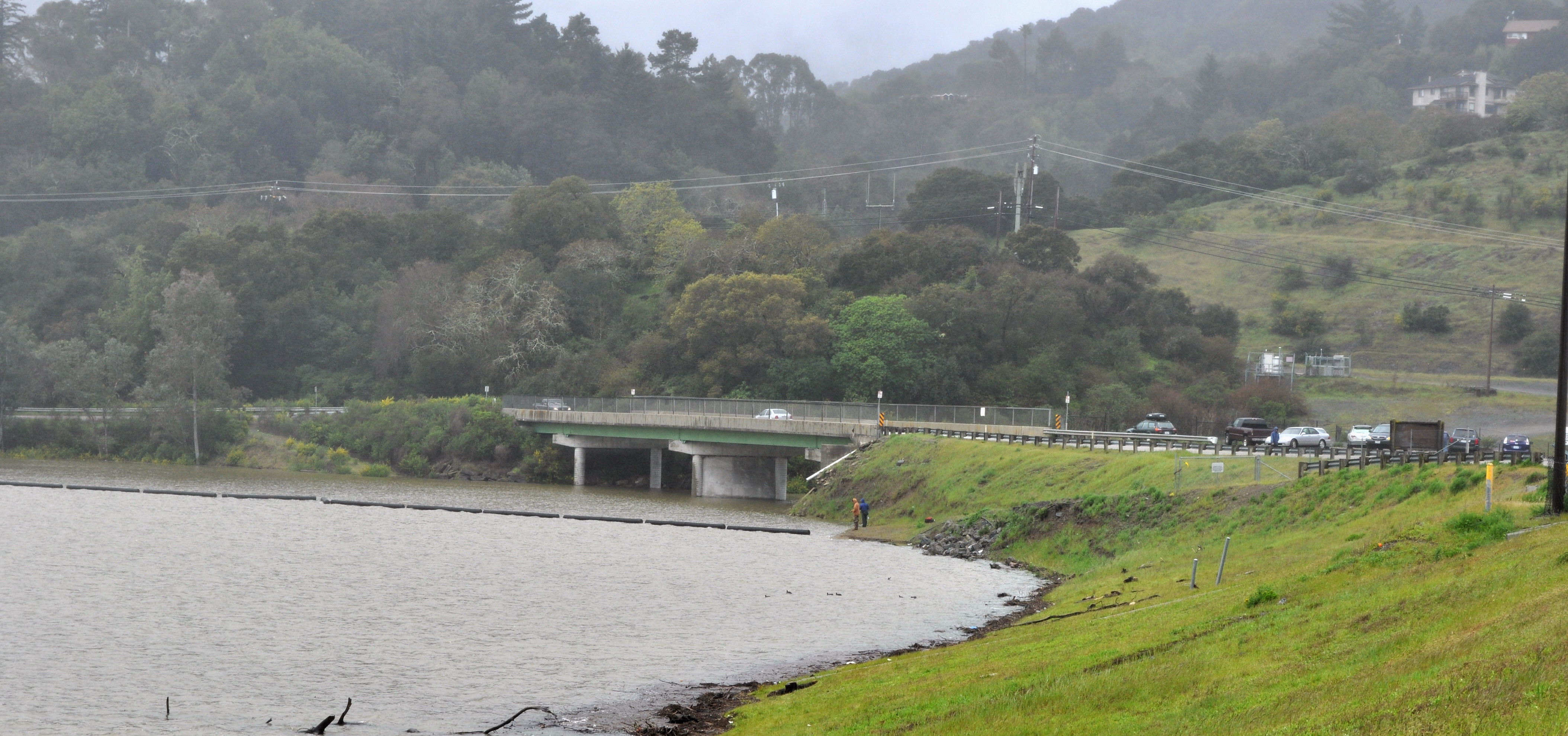 The reservoir at a rare high level, flowing into the spillway.